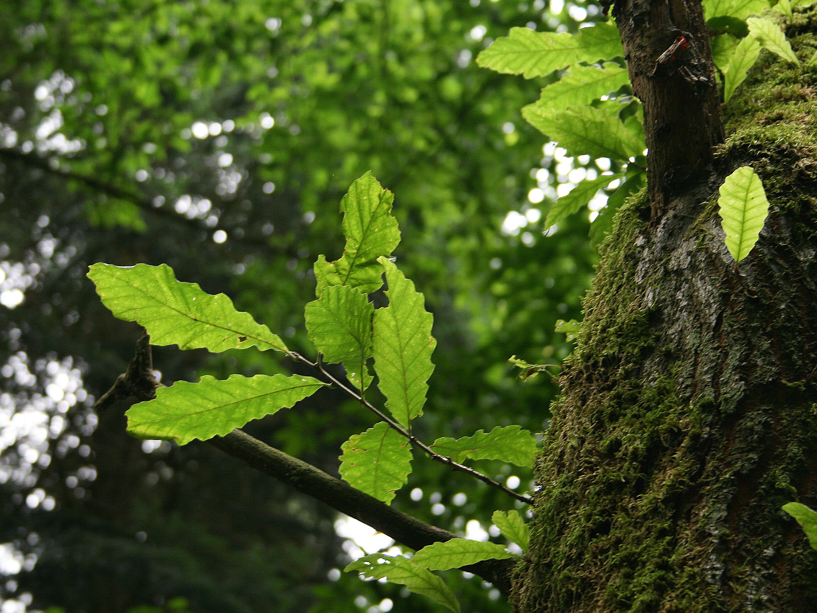 Quercus castaneifolia leaves - Chestnut-leaved Oak Precise location : Arboretum Robert Lenoir - Rendeux (Belgium). Walon: Fouyes do Tchin.ne a fouyes di castagnî Quercus castaneifolia Place: Arboretum Robert Lenoir - Rindeu (Bèljike).